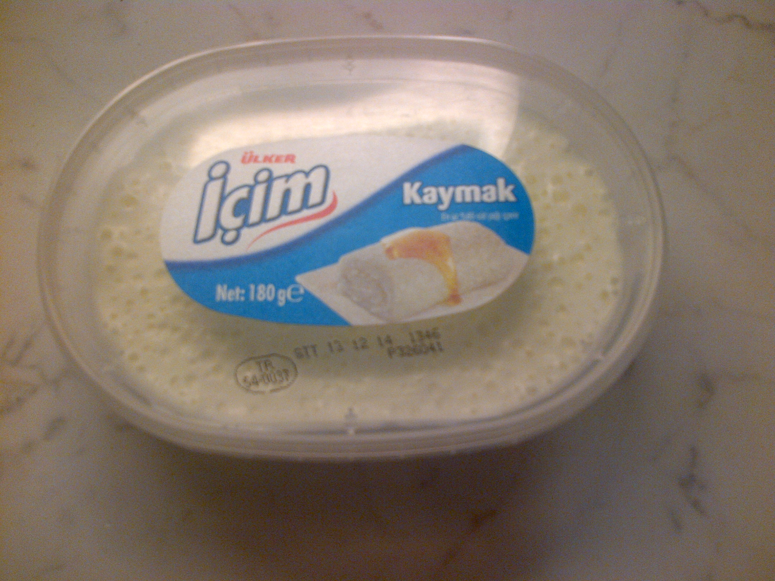 Turkish kaymak